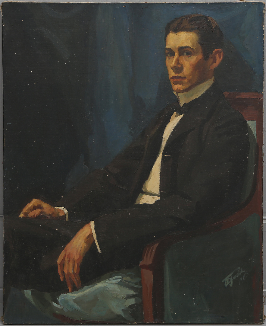 Jurgen Wrangel 1903 by Anna Wrangel